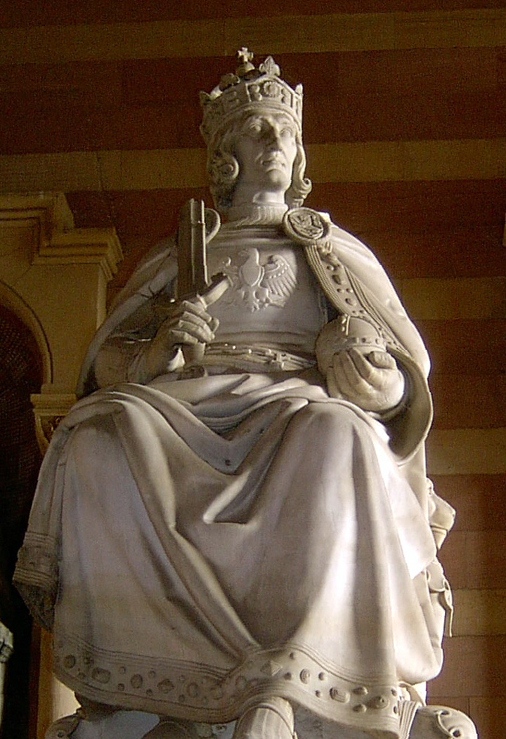 Rudolf of Hapsburg Monument, Speyer Cathedral, Germany